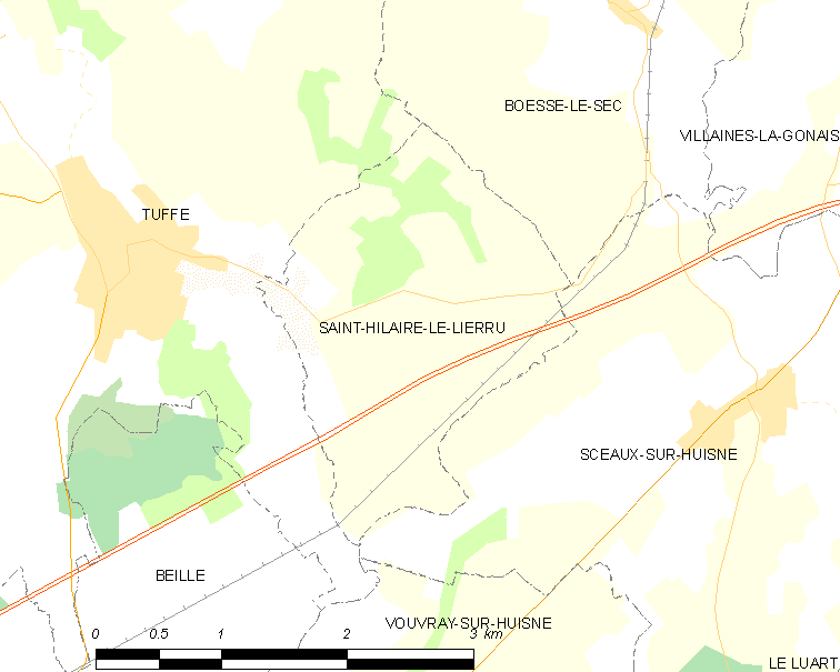 Map of French municipality